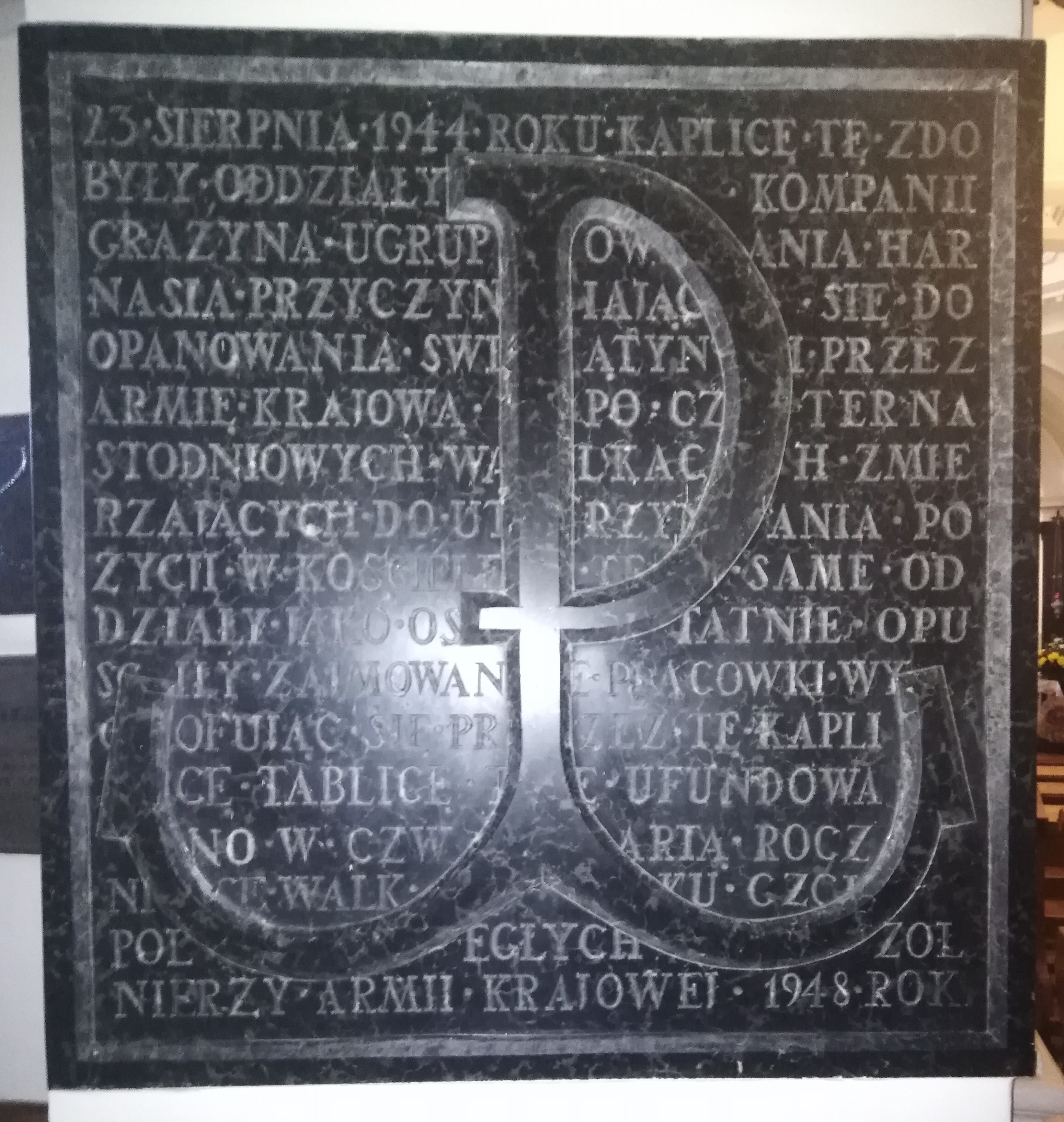 The Church of the Holy Cross in Warsaw, Our Lady of Częstochowa’s chapel. Plaque commemorating soldiers of Home Army „Grażyna” company of „Harnaś” battalion who fought in this church during the Warsaw Uprising of 1944.